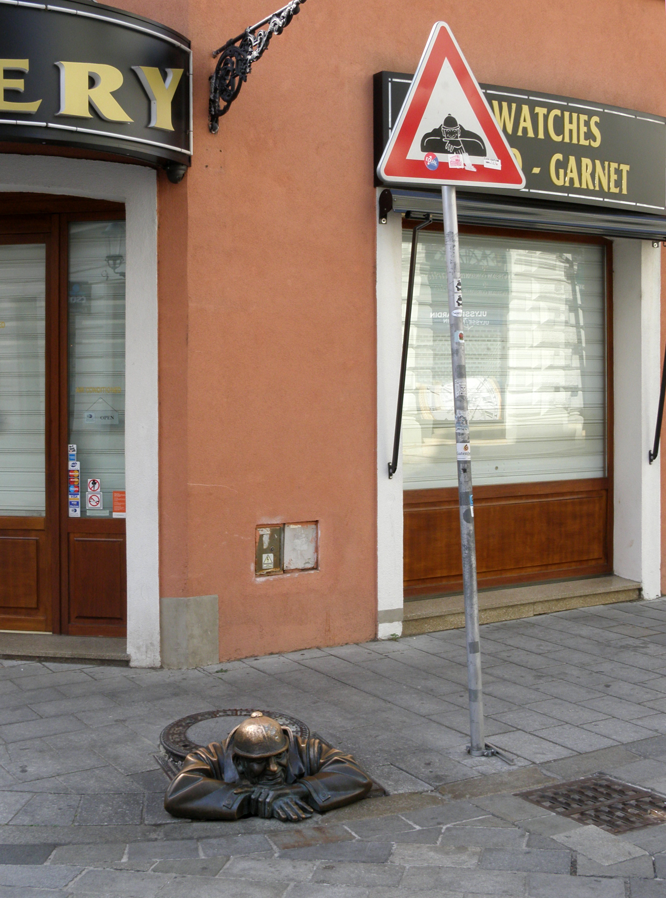 Statue of Man at Work in Bratislava